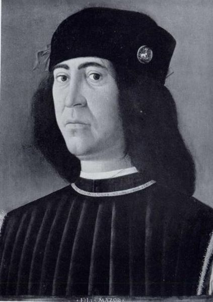 Annibale II Bentivoglio